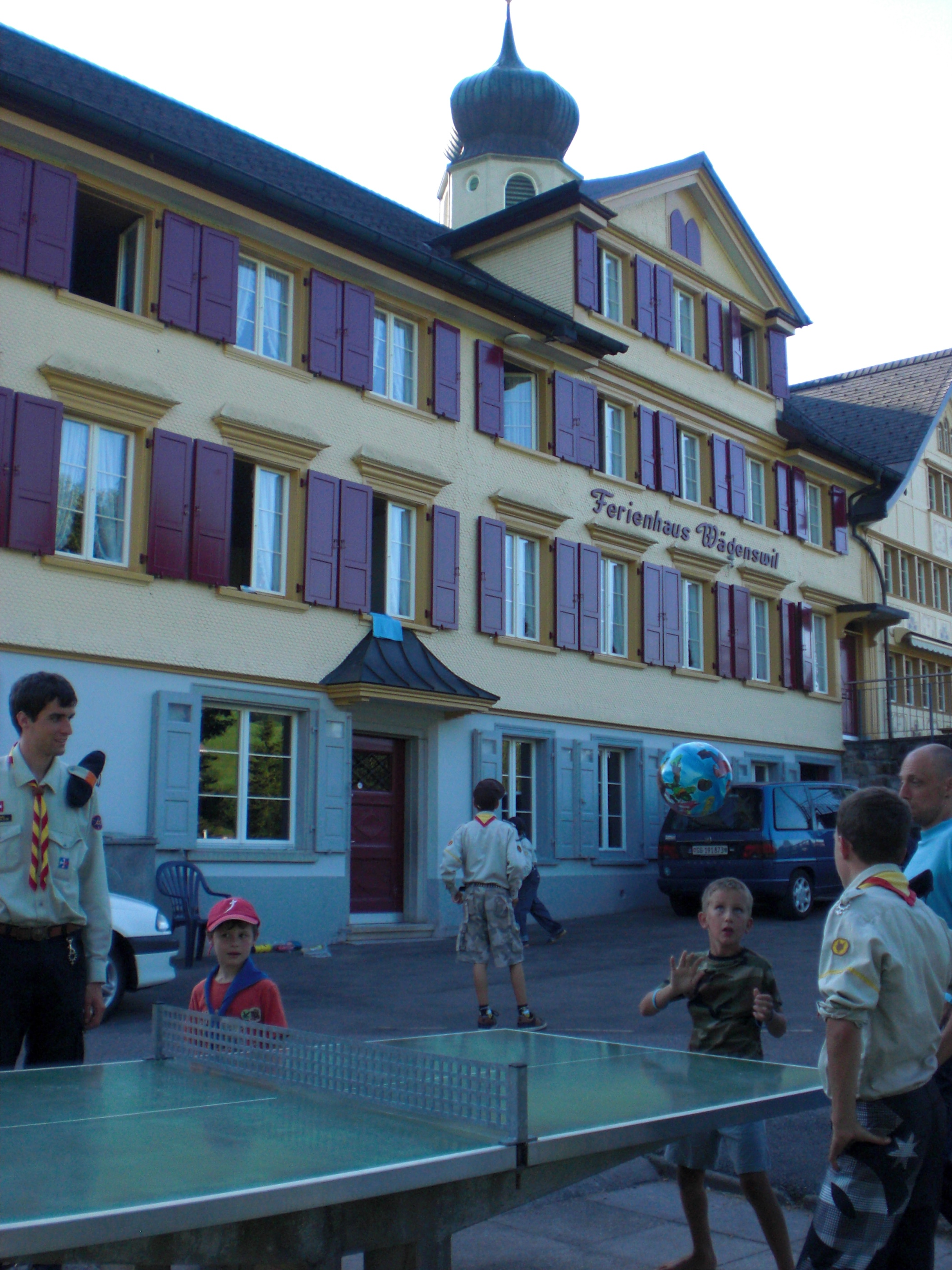 Playing table tennis near Schwende, AI, Switzerland